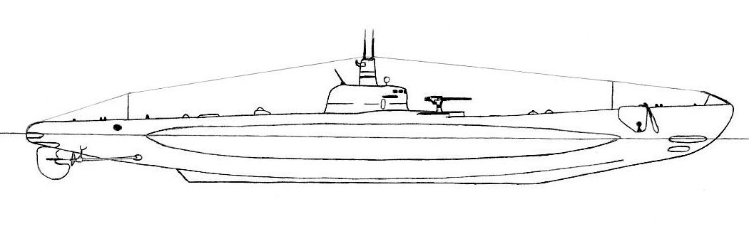 Italian submarine type Markoni of WWII. Scanned drawing.